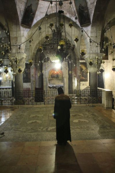 For more pictures and videos of Israel, please visit here. The St Helen Chapel